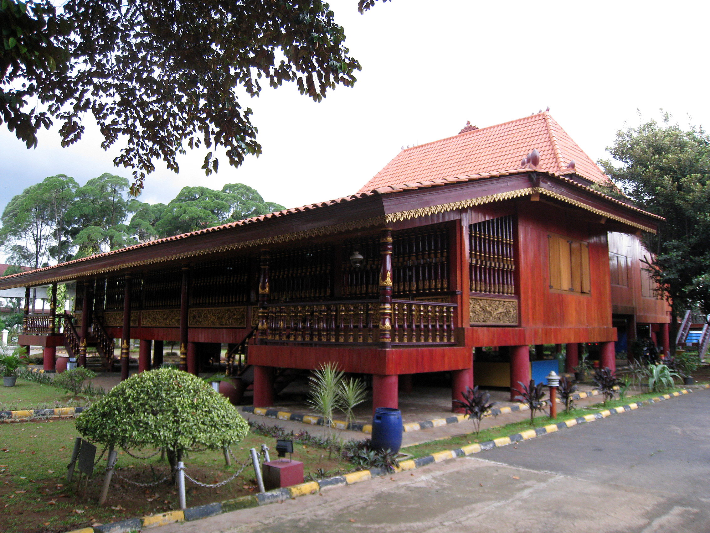 Rumah Limas, a traditional house of Palembang, South Sumatra Pavilion, Taman Mini Indonesia Indah, Jakarta.